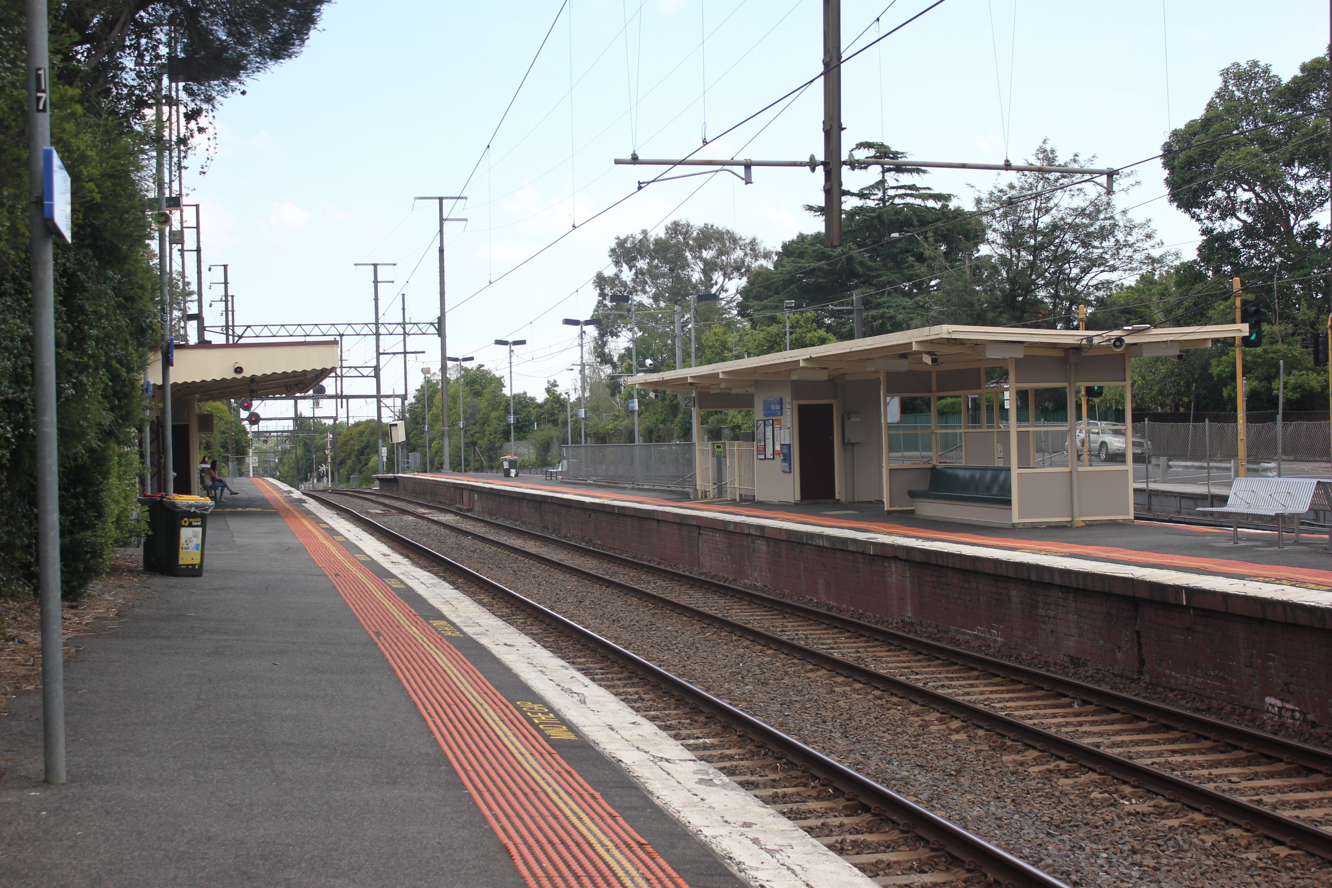 Mont Albert station, looking towards Flinders Street.